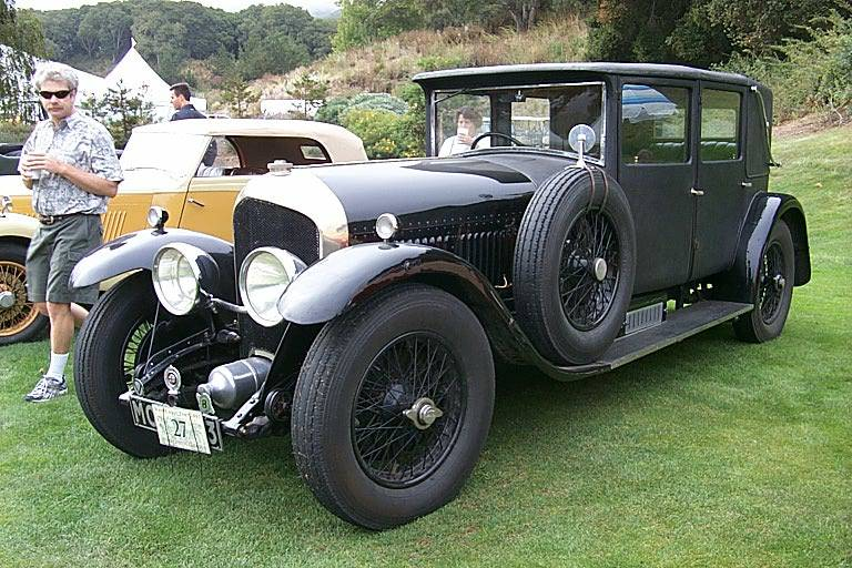 1927 Bentley 6½-litre H J Mulliner Limousine Chassis TW2724 Engine TW2723 Reg MO 9383